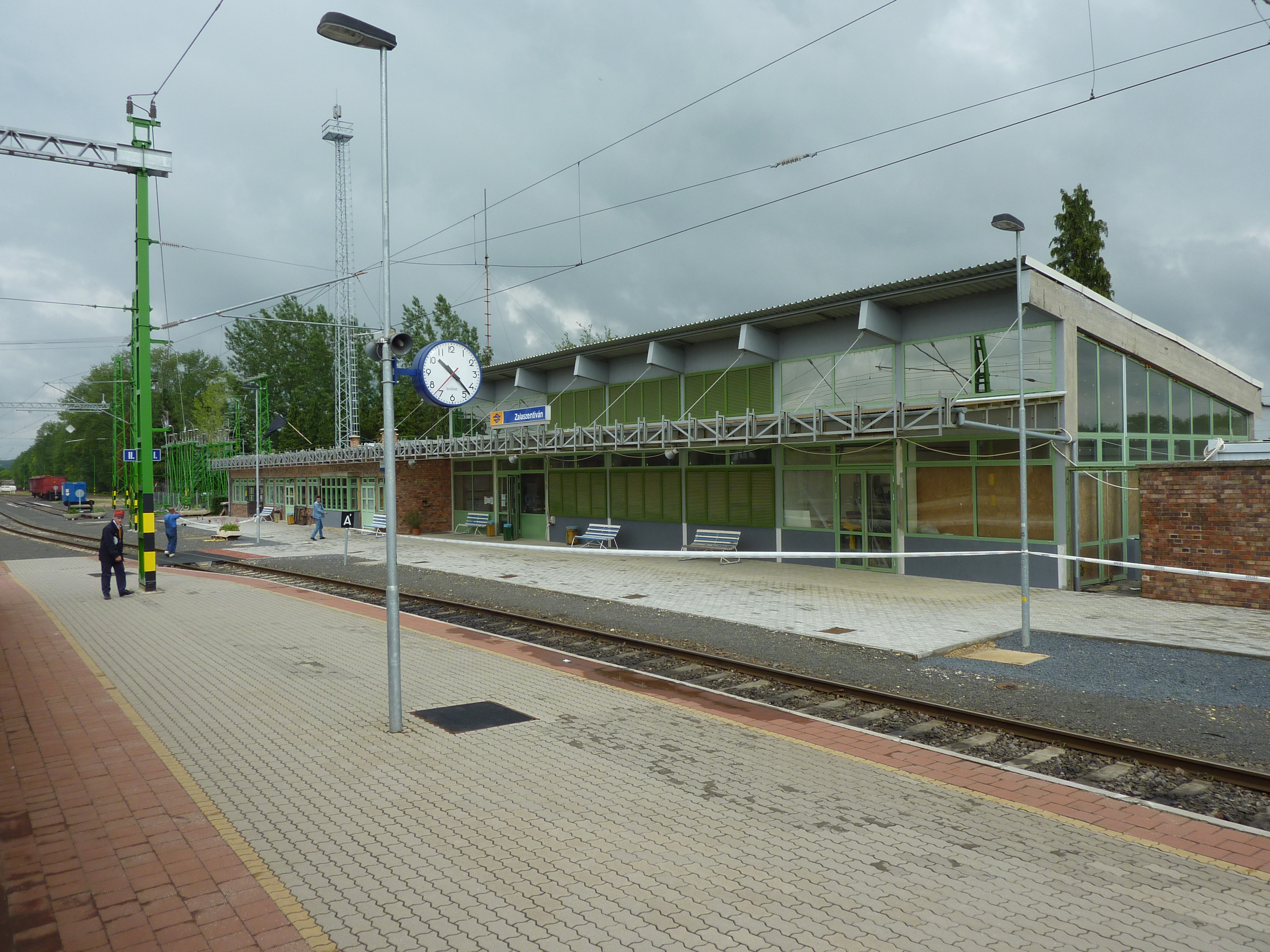 Railway station Zalaszentiván in Hungary